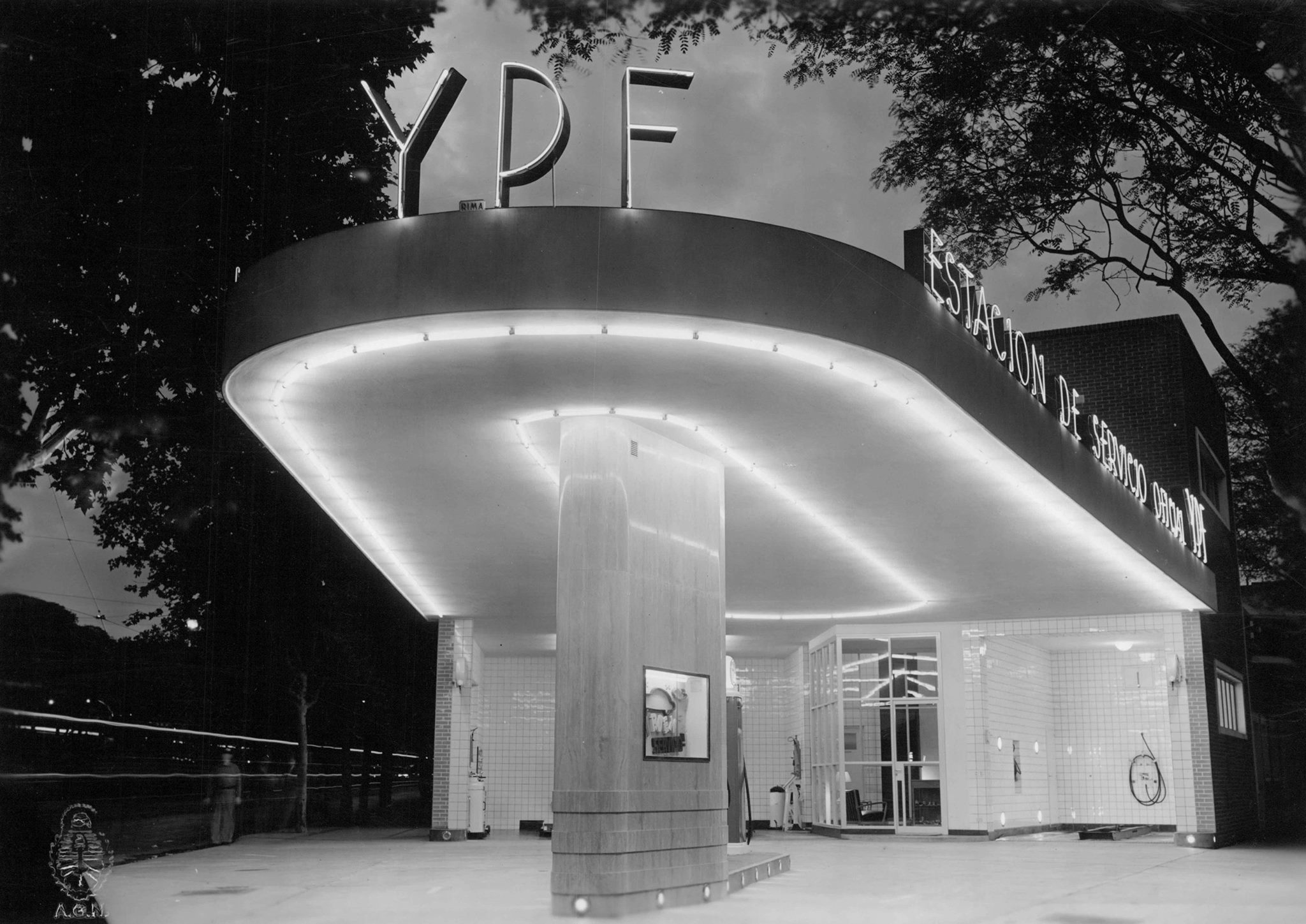 A Yacimientos Petrolíferos Fiscales (YPF) gas station on the corner of Corrientes and Forest Avenues in Chacarita district of Buenos Aires, 1951. Inventory AGN 194863.